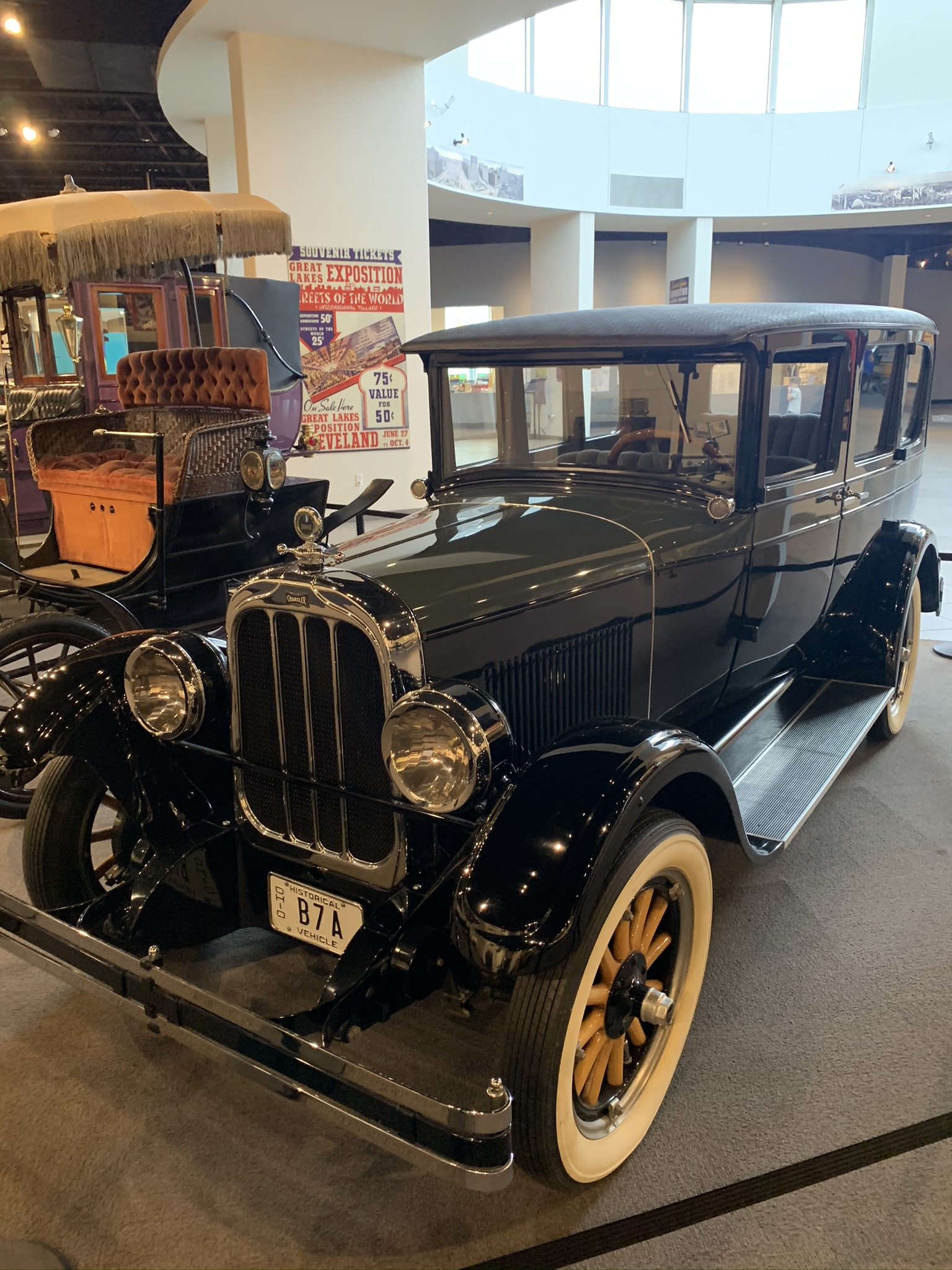 1927 Chandler at Crawford Auto-Aviation Museum